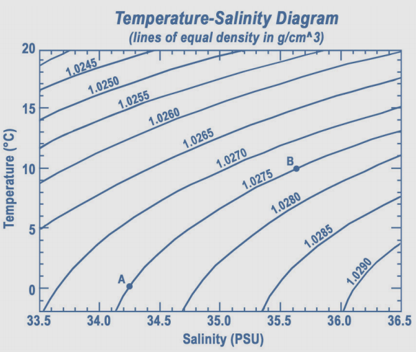 Own work